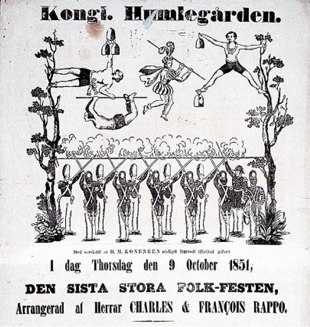 Poster for circus performance in Stockholm 1851. Austrian artists Charles Rappo (1800-1854) and his son Francois Rappo.